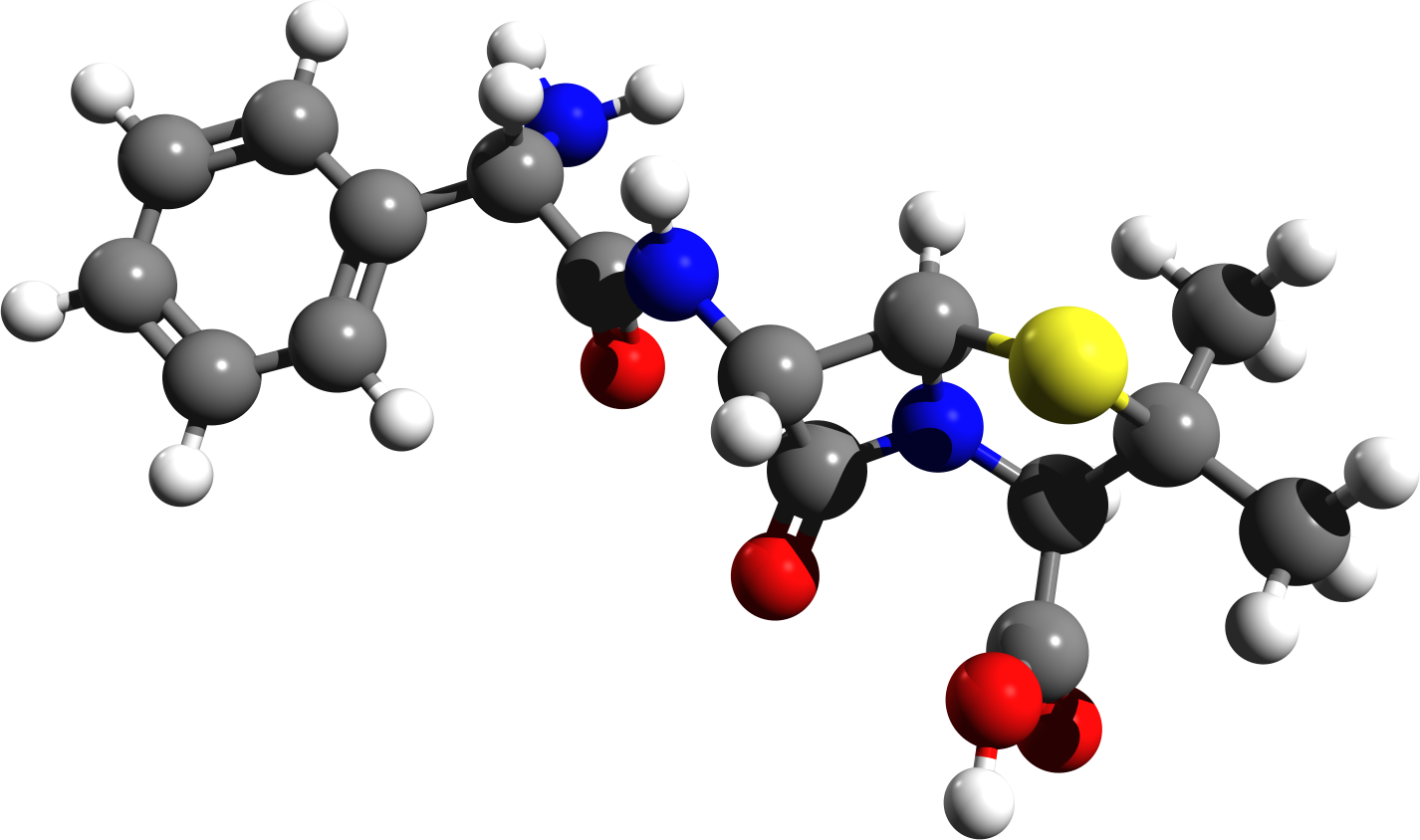 Ampicillin structure